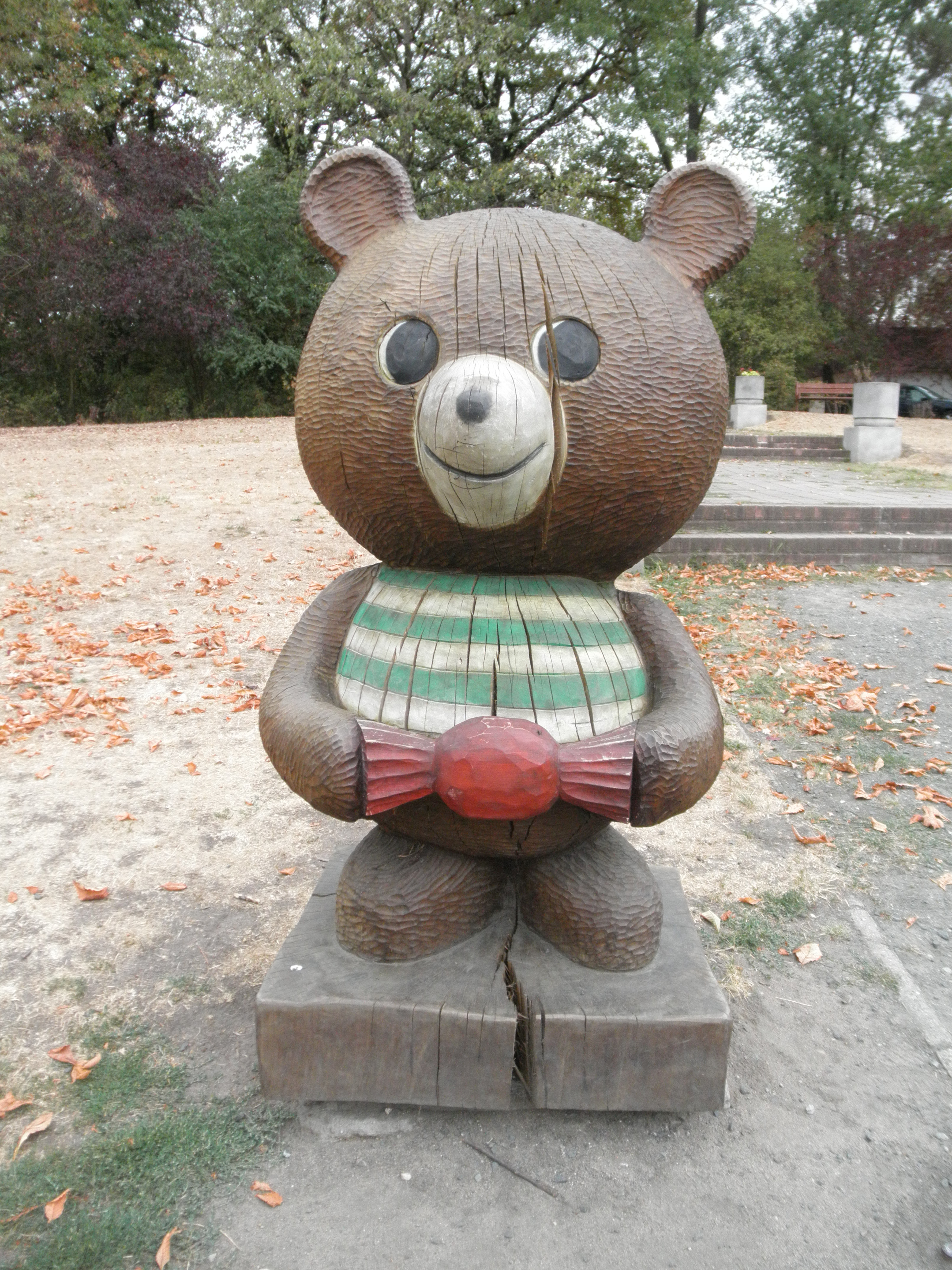 Wooden statue showing the bear from the TV series Hey Mister, Let's Play! in Kolín. The statue was made by Michal Jára.